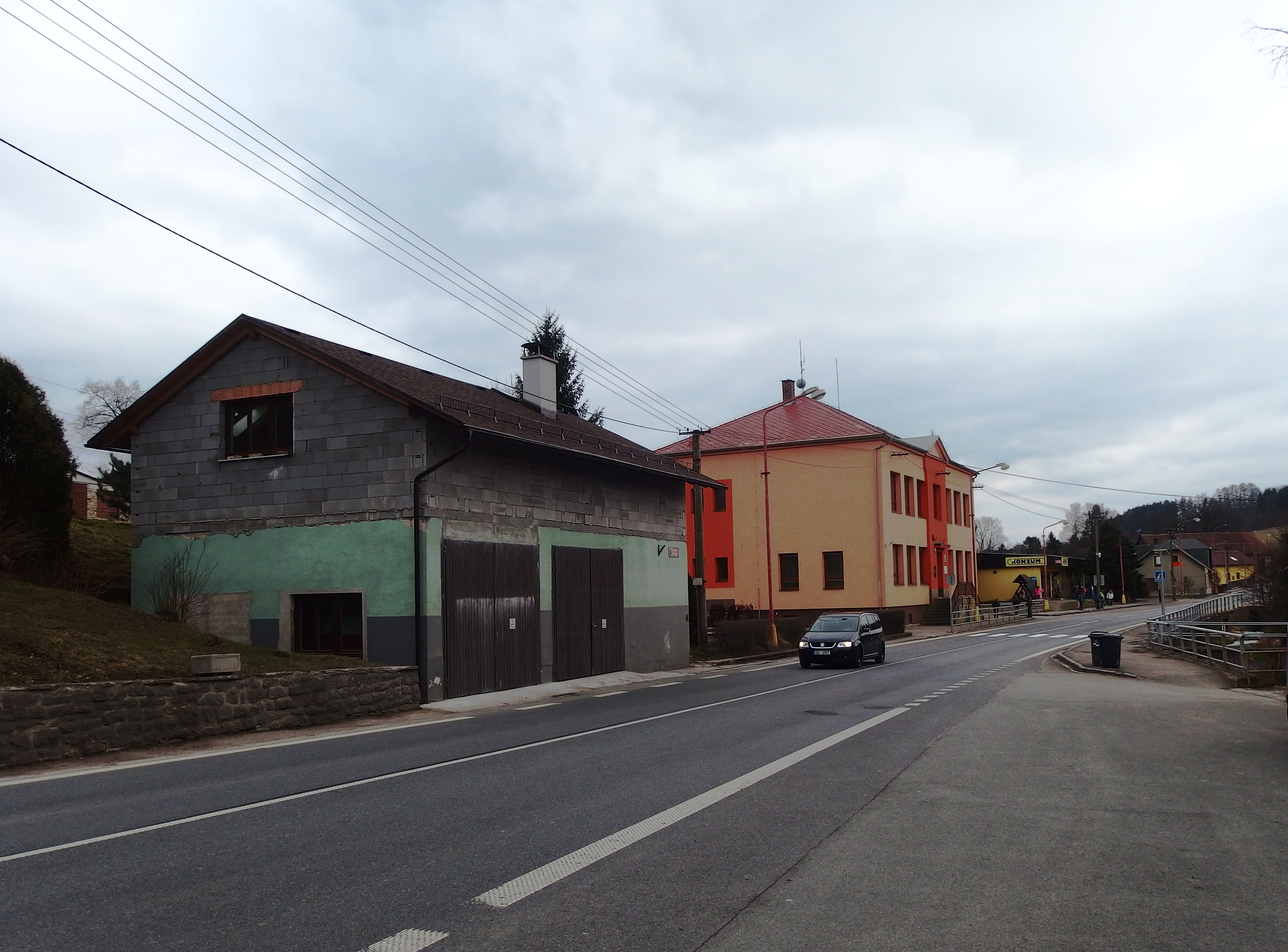 Sopotnice, Ústí nad Orlicí District, Czech Republic.